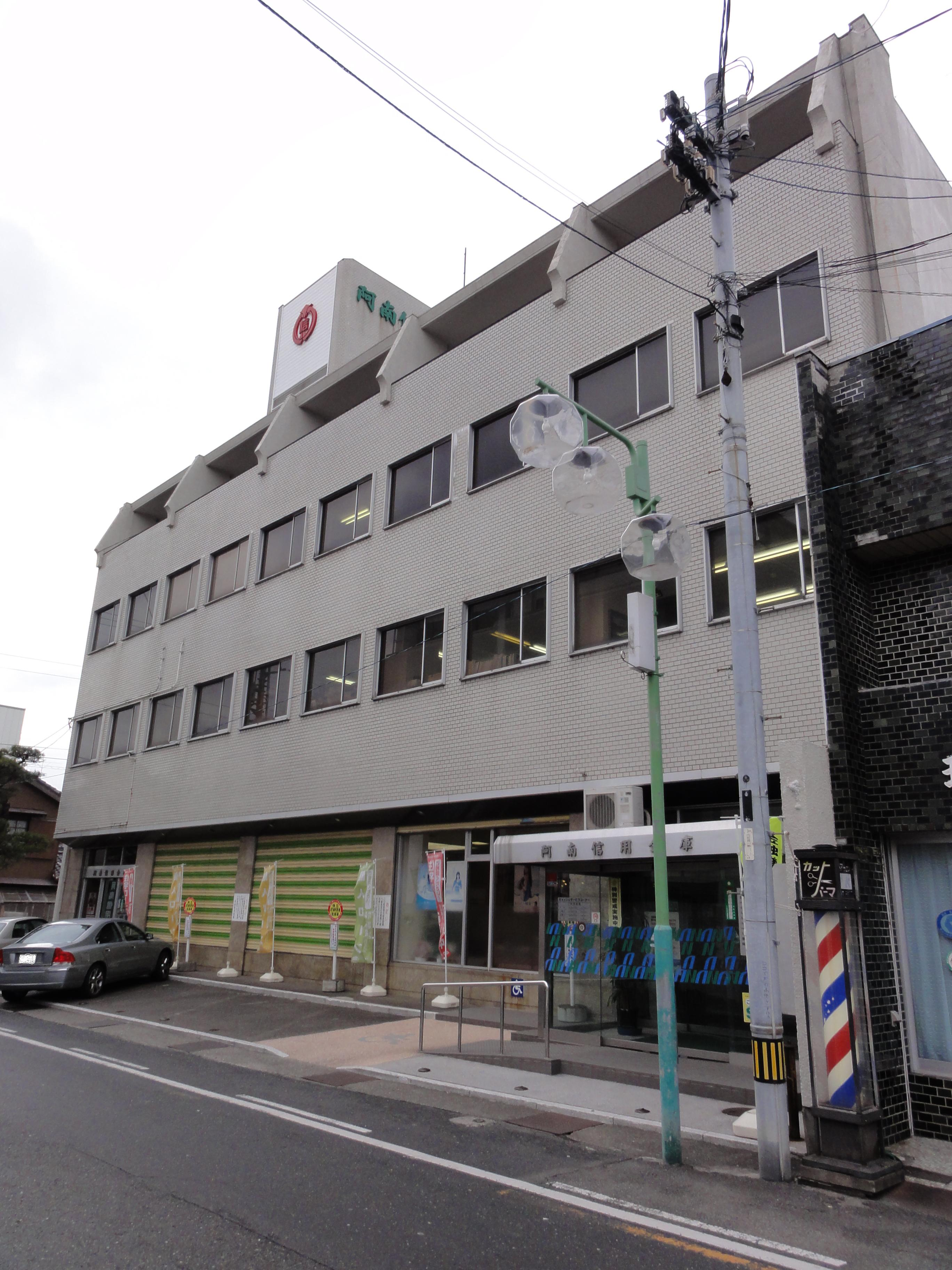 Headquarters of Anan shinkin bank,Tokushima Pref., Japan